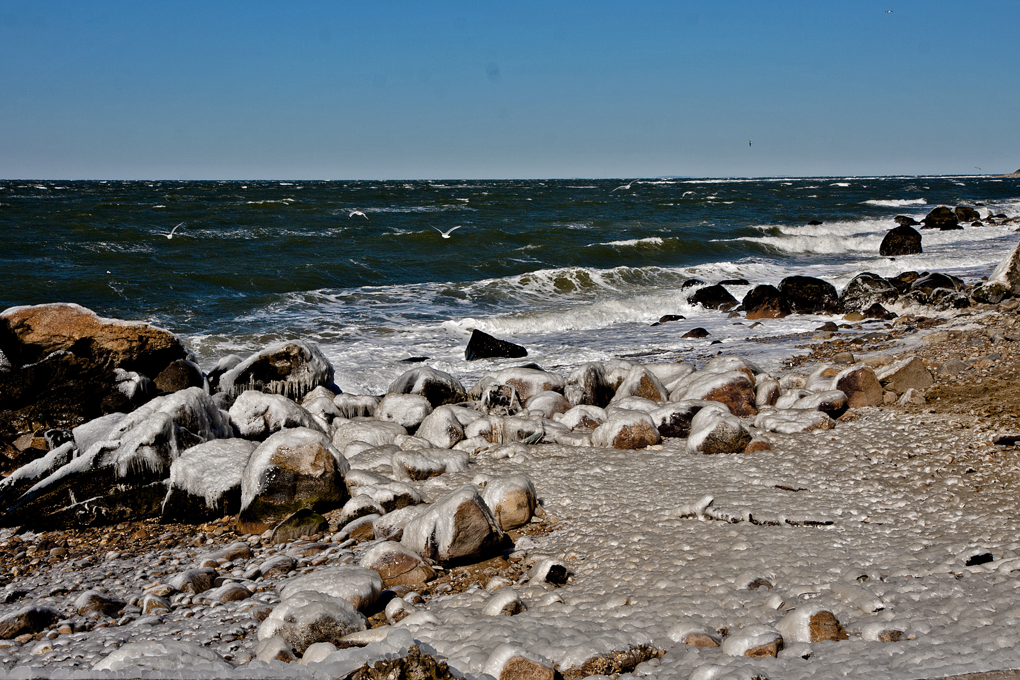 Montauk - Fort pond Bay-01